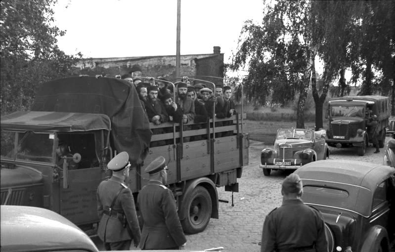 Poland, September 1939arrestation and transport of Jews